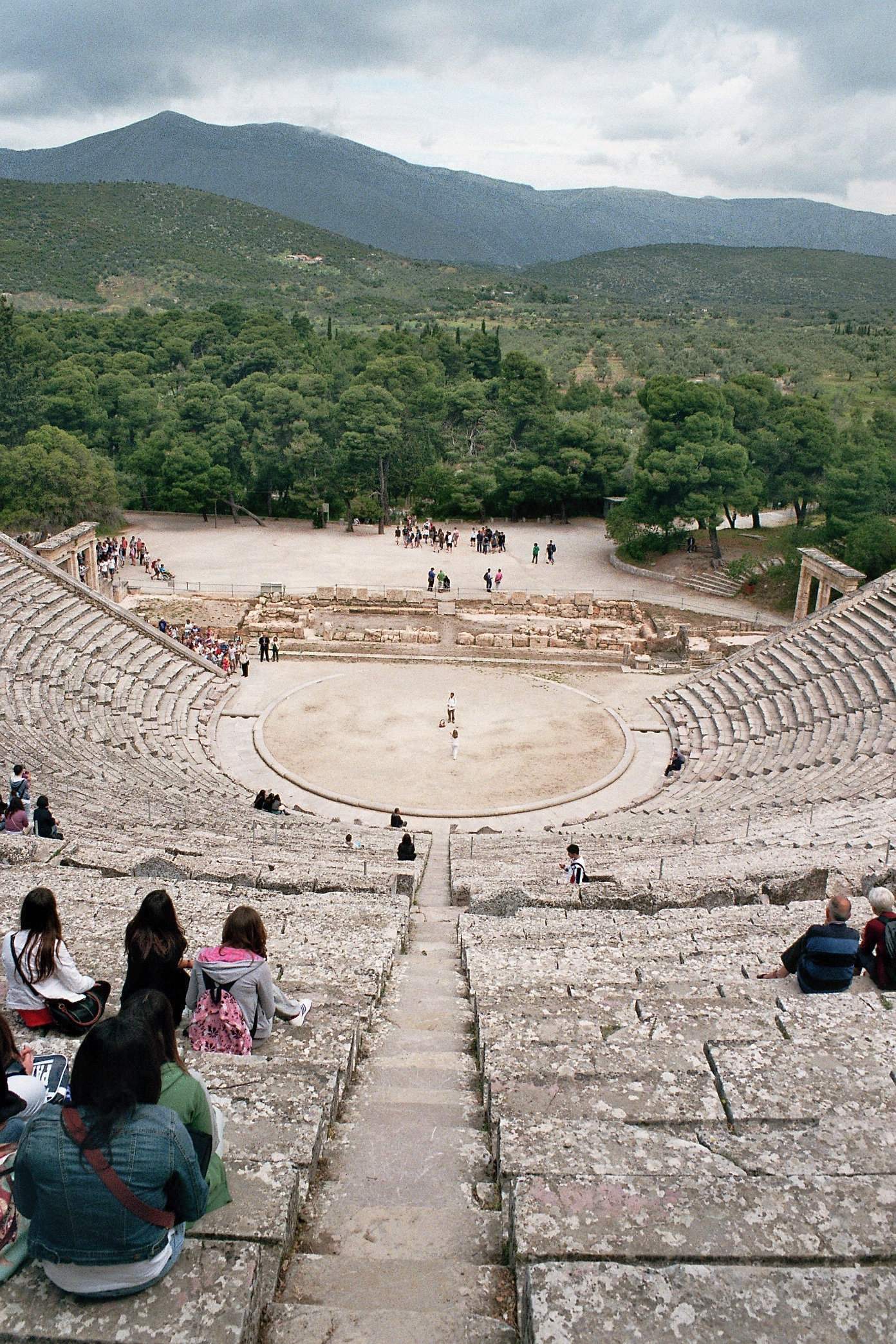 Epidaurus, Greece, antique theatre